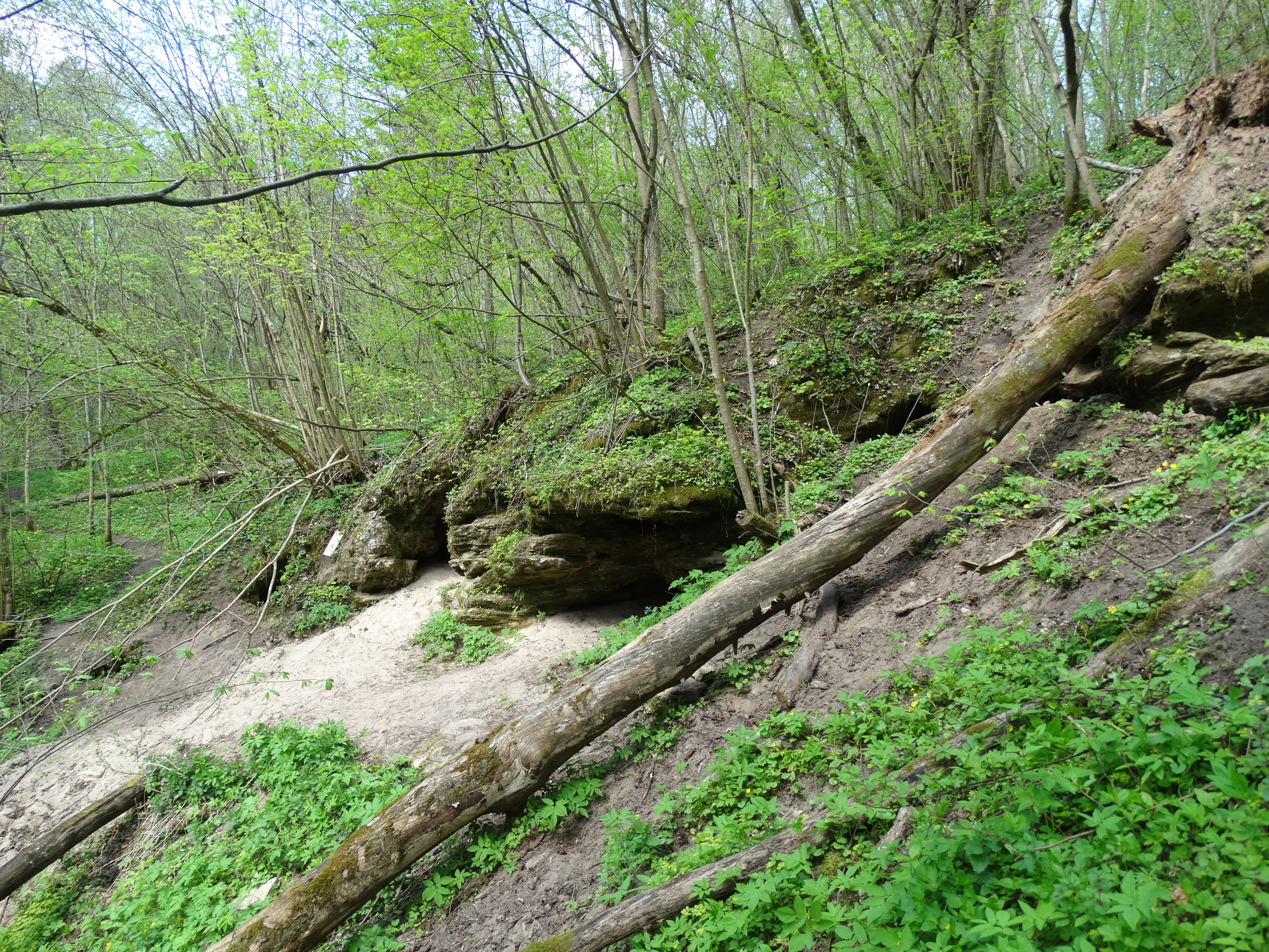 Cave by Čiobiškis, Širvintos District, Lithuania